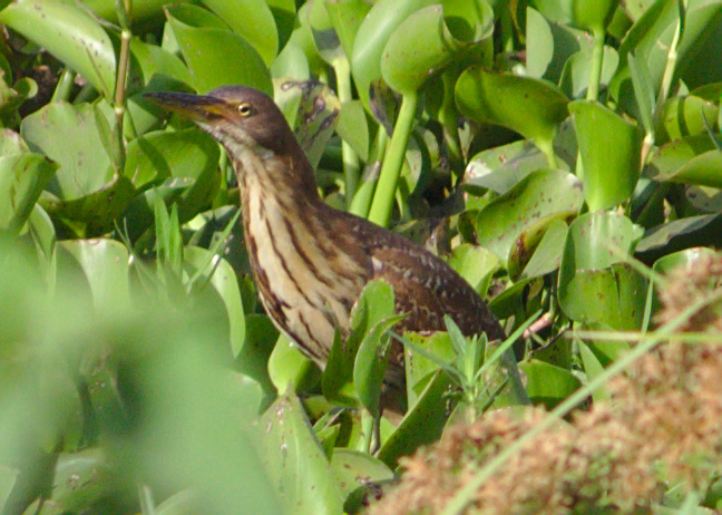 Cinnamon Bittern, immature, photographed near Van Vihar National Park, Bhopal on 28th May 2017.